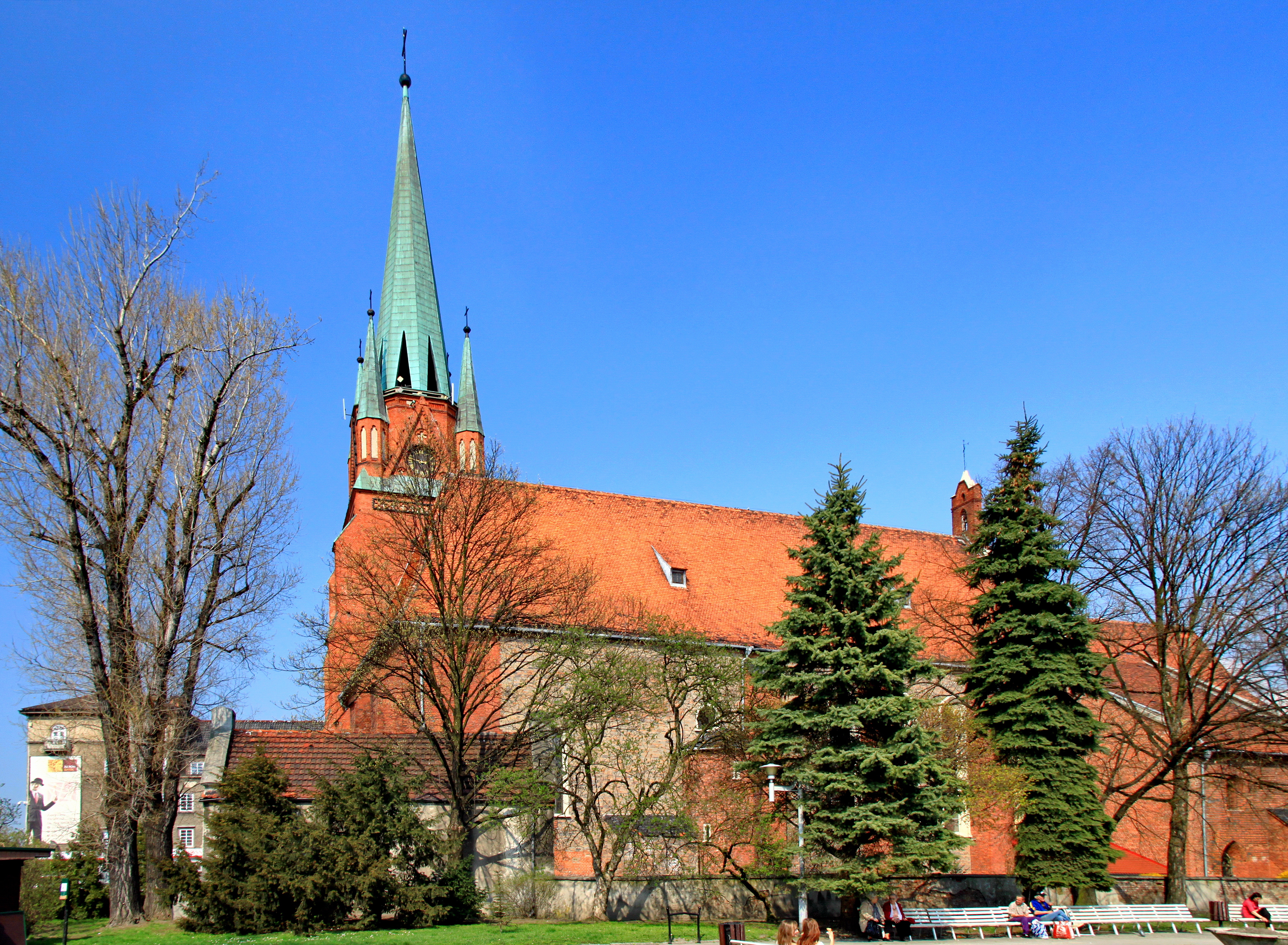 Racibórz, parish church of the Assumption of the Blessed Virgin Mary, build in 14th century, 16th century, 1891, 1948-1849